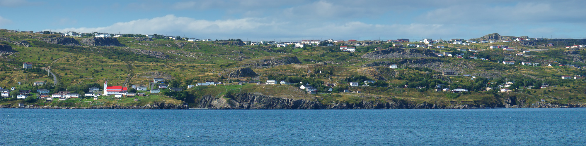 Bishop's Cove, Avalon Peninsula, Newfoundland, Canada. Panorama seen from French's Cove across the water on Conception Bay.